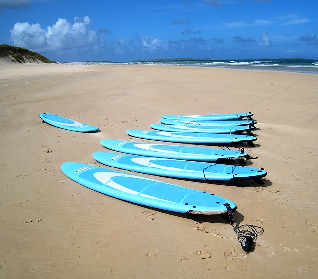 Surfboards on the beach. Surfboards awaiting the arrival of a group of novices to test try the waters north of Falacarragh near Errarooey 1424856.